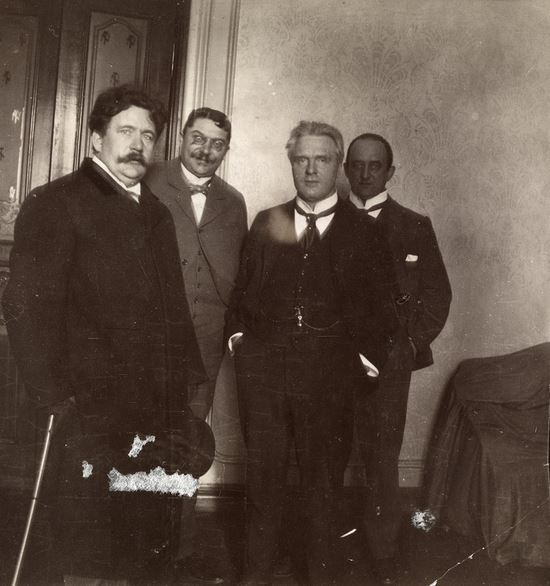 Four norwegians at the Nationaltheatret in 1903. From left composer Johan Halvorsen (1864–1935), actor and assisting artistic director Olaf Mørch Hansson (1856–1912), theatre director Bjørn Bjørnson (1859–1942) and actor Olav Voss (1864–1912).